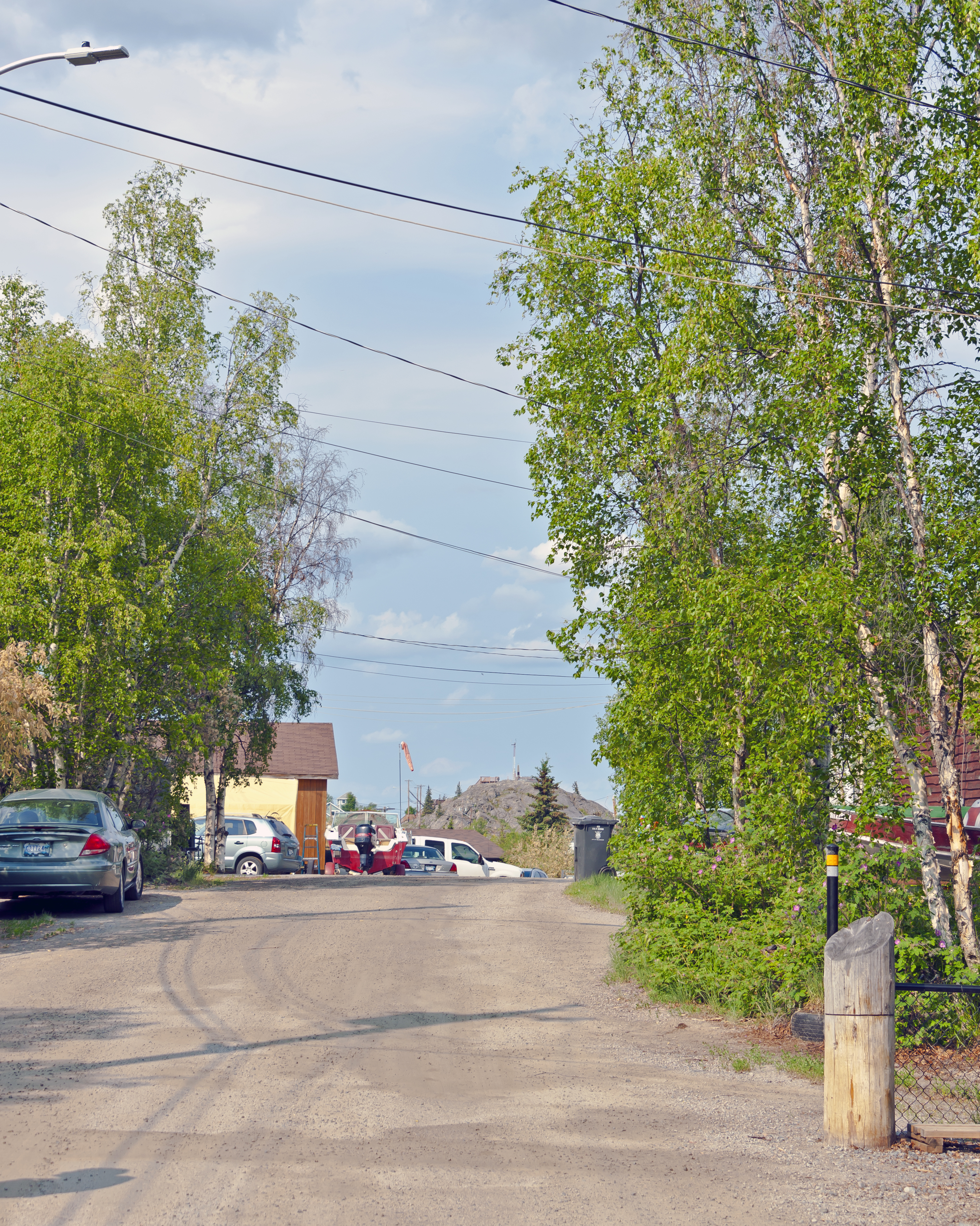 Looking north along Ragged Ass Road from the Brock Street intersection, Yellowknife, Northwest Territories, Canada